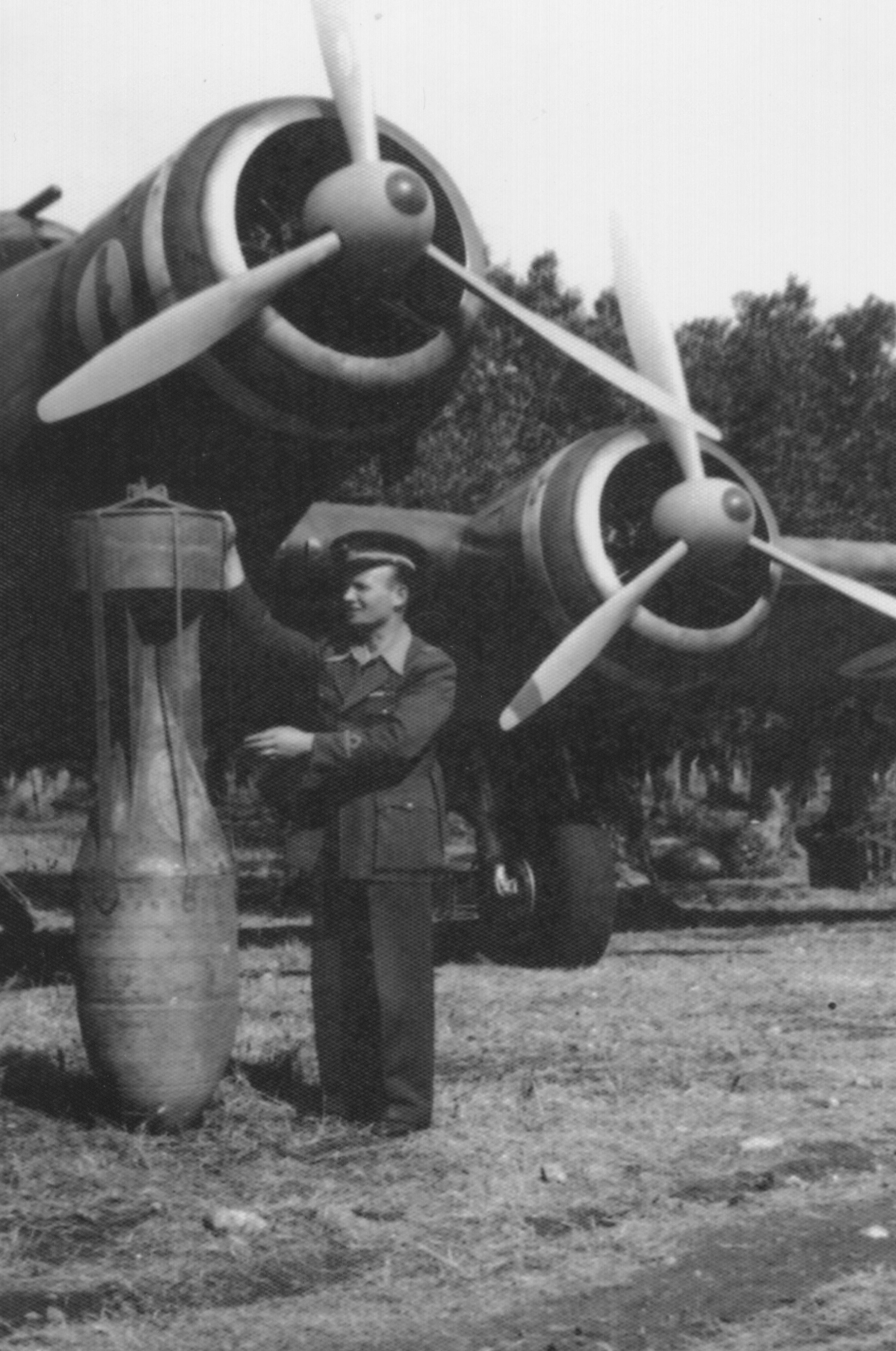 WWII Italian bomb next to a plane. From the private archive of Riggio family.